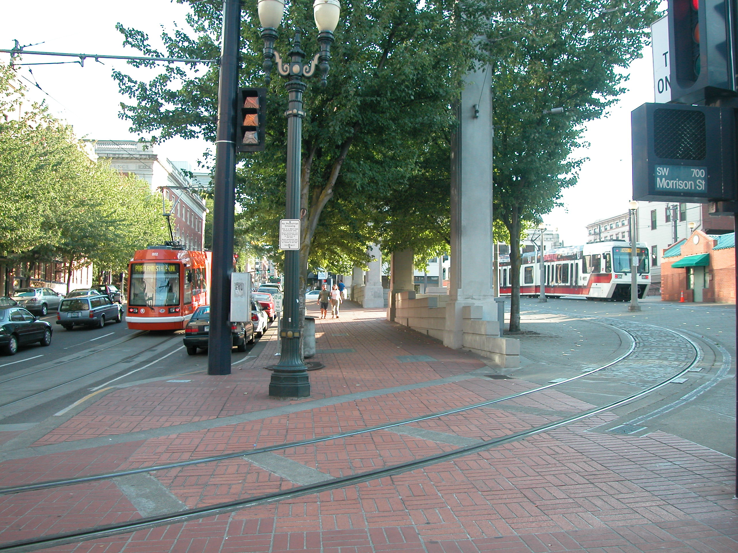 The turnaround loop (at right) at SW 11th Avenue in downtown for Portland's MAX Light Rail system in 2004, with a streetcar on the Portland Streetcar system passing by at left, on 11th Avenue. There is no station at this location, and MAX passengers are not permitted to ride through the loop. Since 2009, no MAX trips are scheduled to use this loop, but it was the terminus (for trains, not passengers) of the Gresham Line from 1986 to 1998, the Red Line from 2001 to 2003 and the Yellow Line from 2004 to 2009, as well as for Vintage Trolley service from 1991 to 2009.